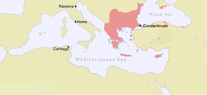 Map of the Byzantine Empire c.1095, after the Turkish invasion